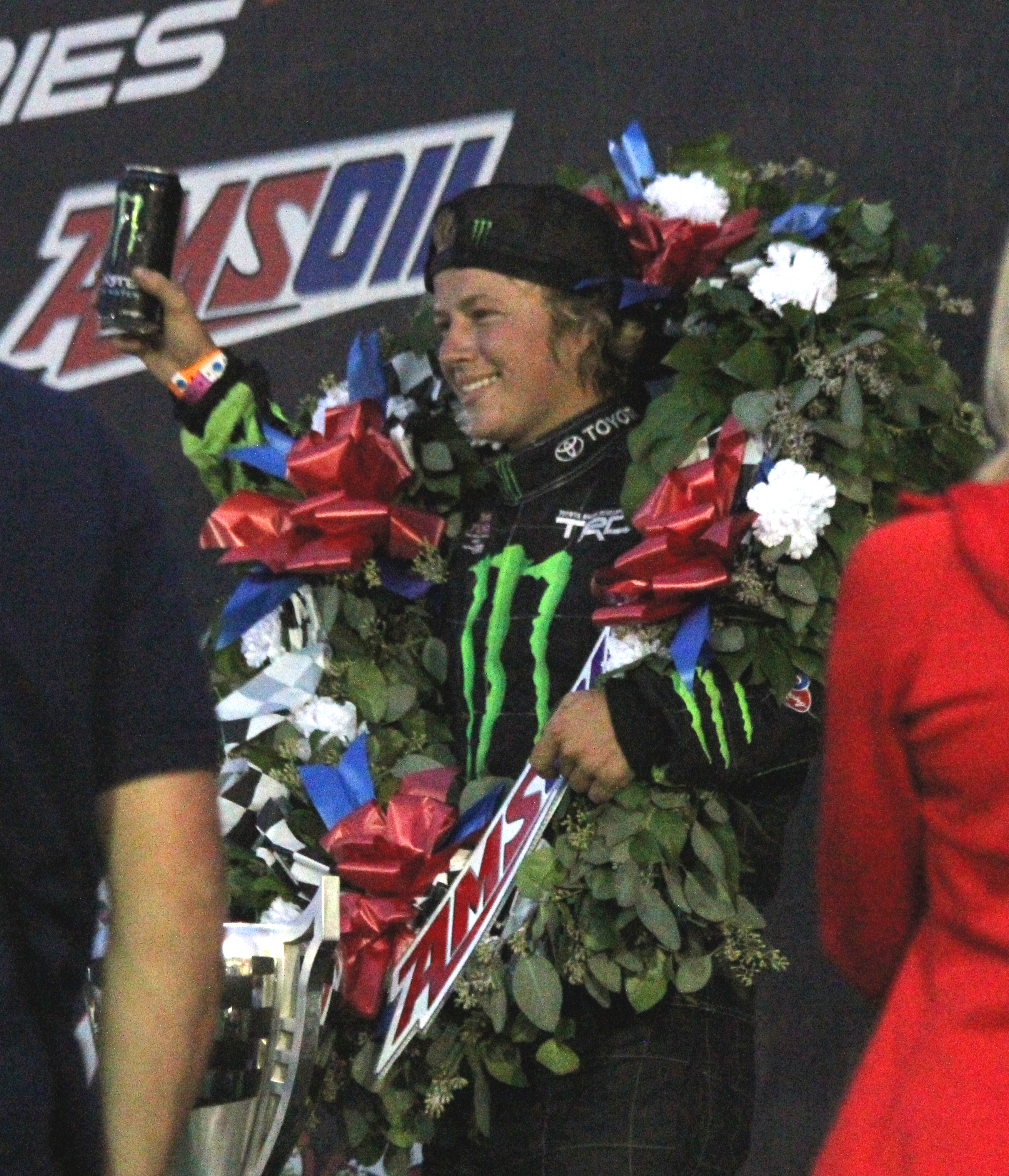 C.J. Greaves wears a laurel wreath after winning the 2013 AMSOIL Cup off-road world championship race.